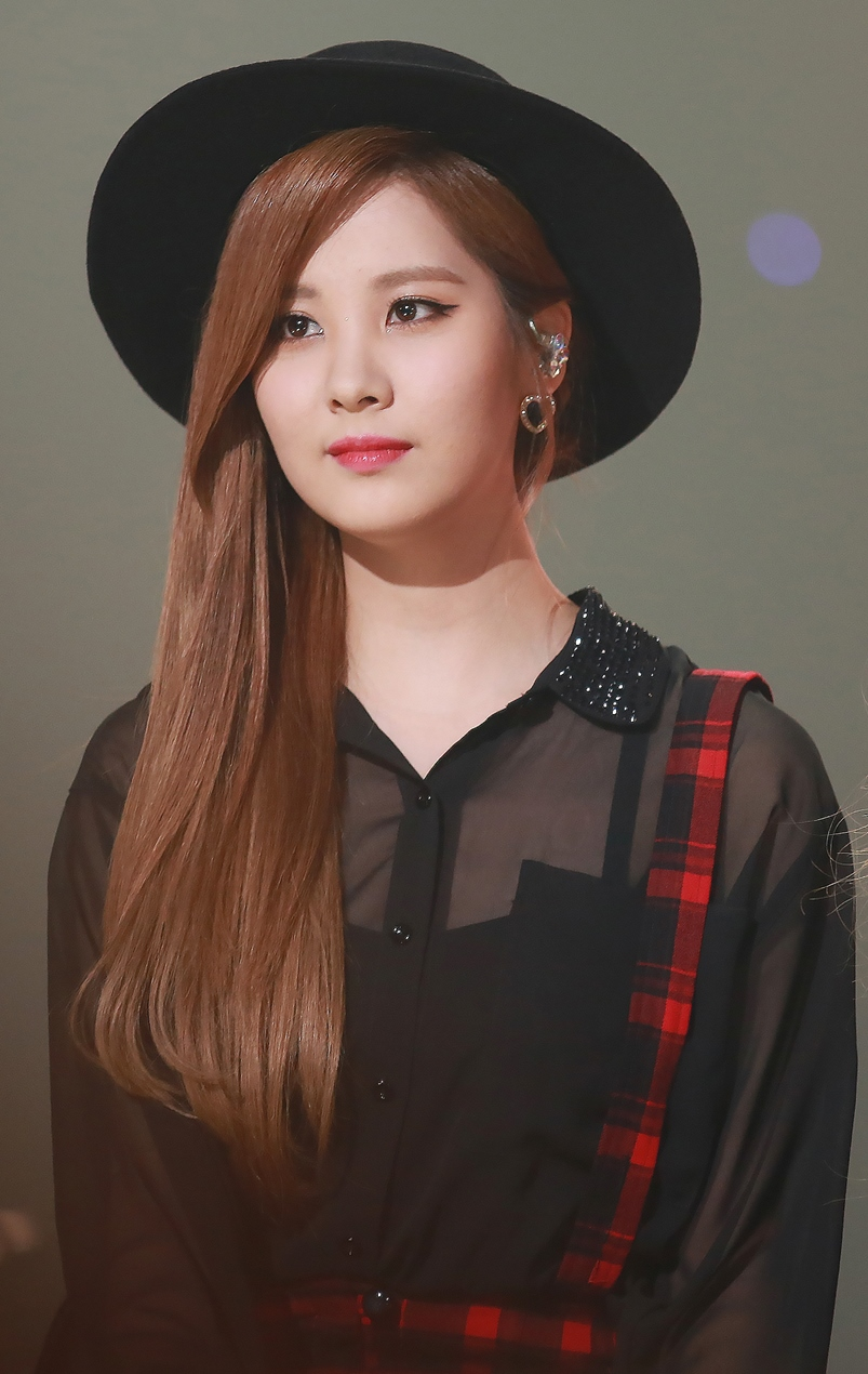 Seohyun at Yu Huiyeol's Sketchbook on September 23, 2014.